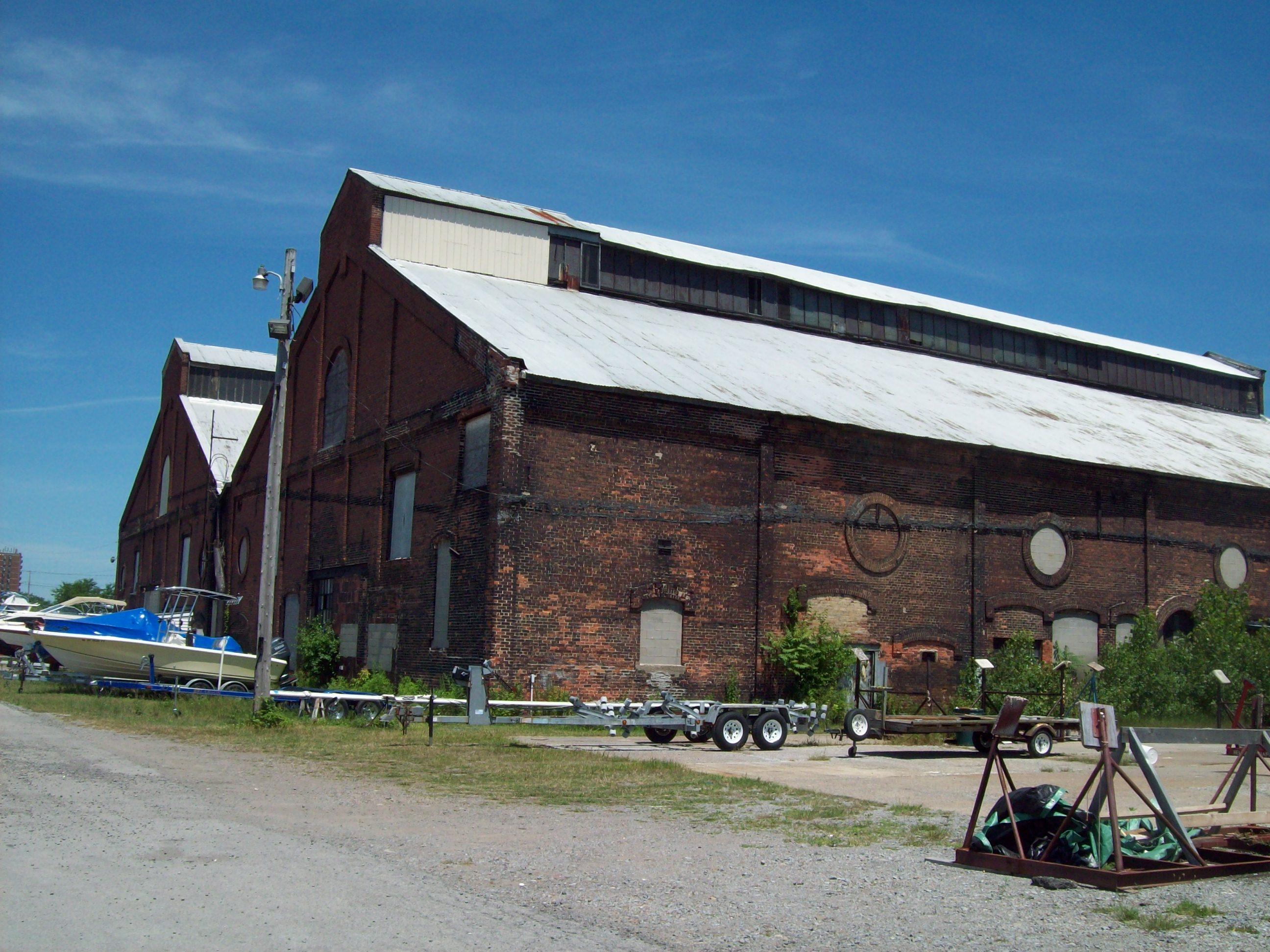 Buffalo Smelting Works, 23 Austin Street, Buffalo, NY, July 2011